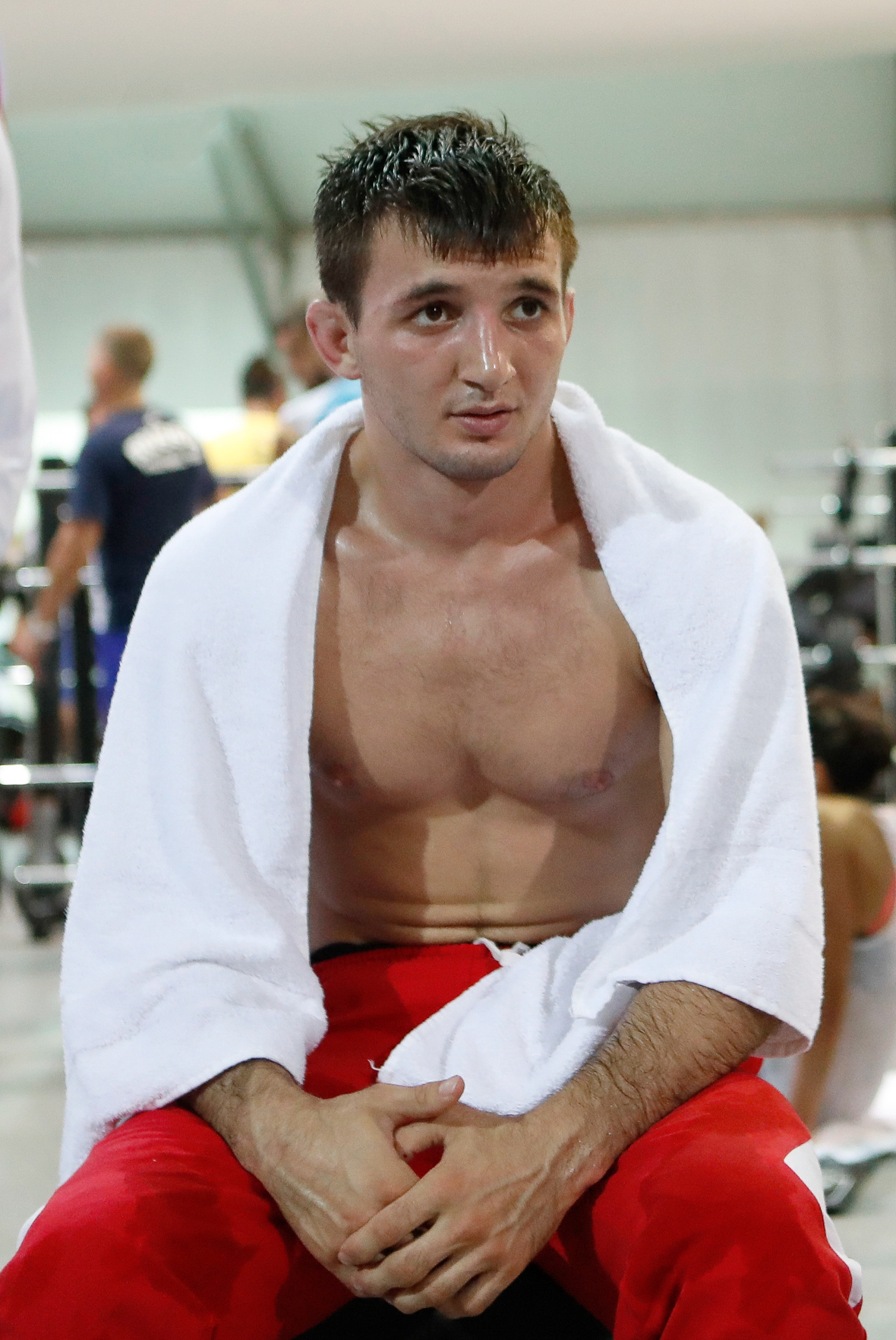 Rio de Janeiro - Judoca do Quirguistano Otar Bestaev descansa após treinar na academia da Vila Olímpica dos Jogos Rio 2016.